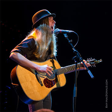 Sawyer Fredericks performing at Bowery Music Hall, NYC, on December 16, 2015